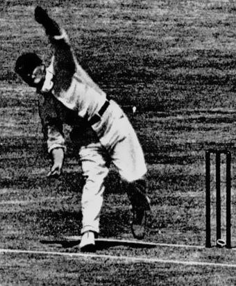 Roy Kilner bowling in the final Test, England v Australia 1924–25 (Cropped slightly from original to remove poor quality)